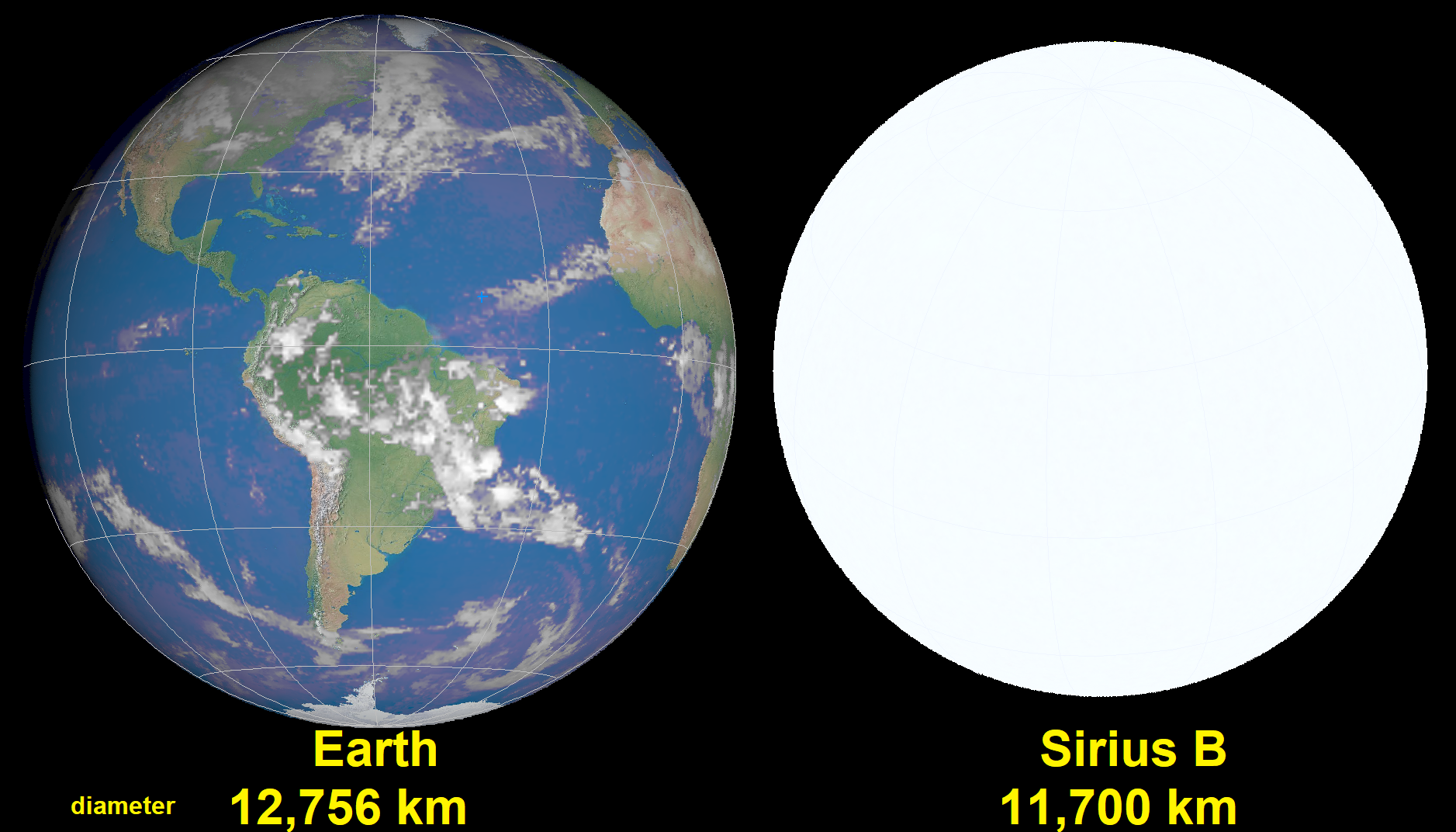 Relative sizes of Sirius B and the Earth